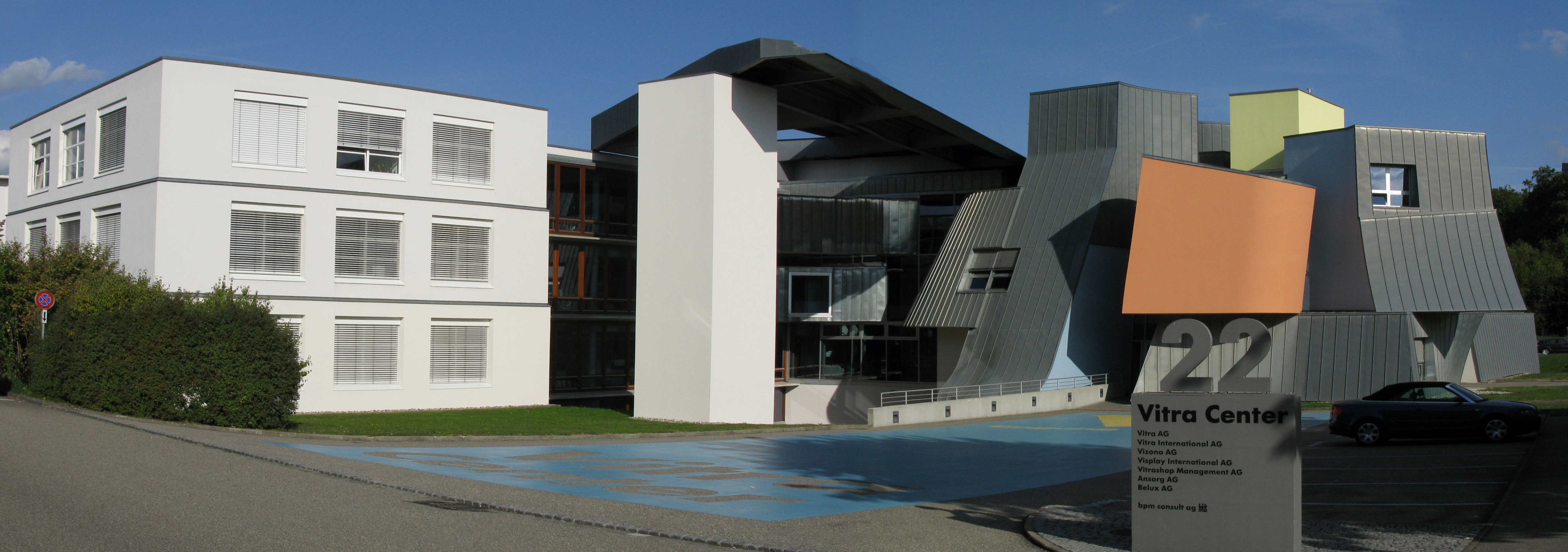 Headquarter of Vitra in Birsfelden